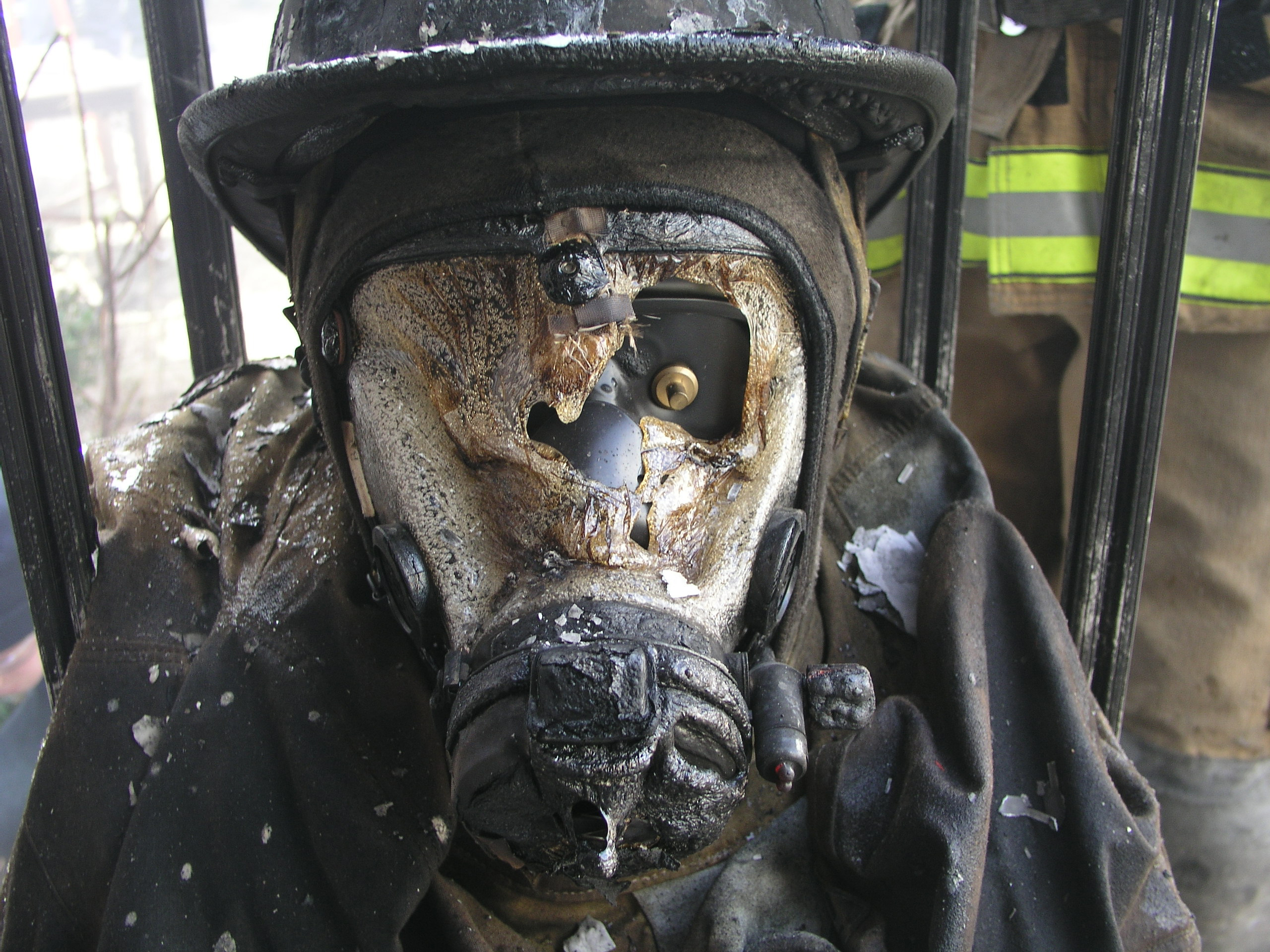 Opening the door provided additional air to a smoldering living-room fire and caused the fire to increase in burning rate and flames to extend out the doorway, resulting in high temperatures and heat flows that melted a hole in the mask. Pressure sensor (brass fitting that was mounted on the face of the headform) is visible through the hole in the lens. Credit: NIST Disclaimer: Any mention of commercial products within NIST web pages is for information only; it does not imply recommendation or endorsement by NIST. Use of NIST Information: These World Wide Web pages are provided as a public service by the National Institute of Standards and Technology (NIST). With the exception of material marked as copyrighted, information presented on these pages is considered public information and may be distributed or copied. Use of appropriate byline/photo/image credits is requested.